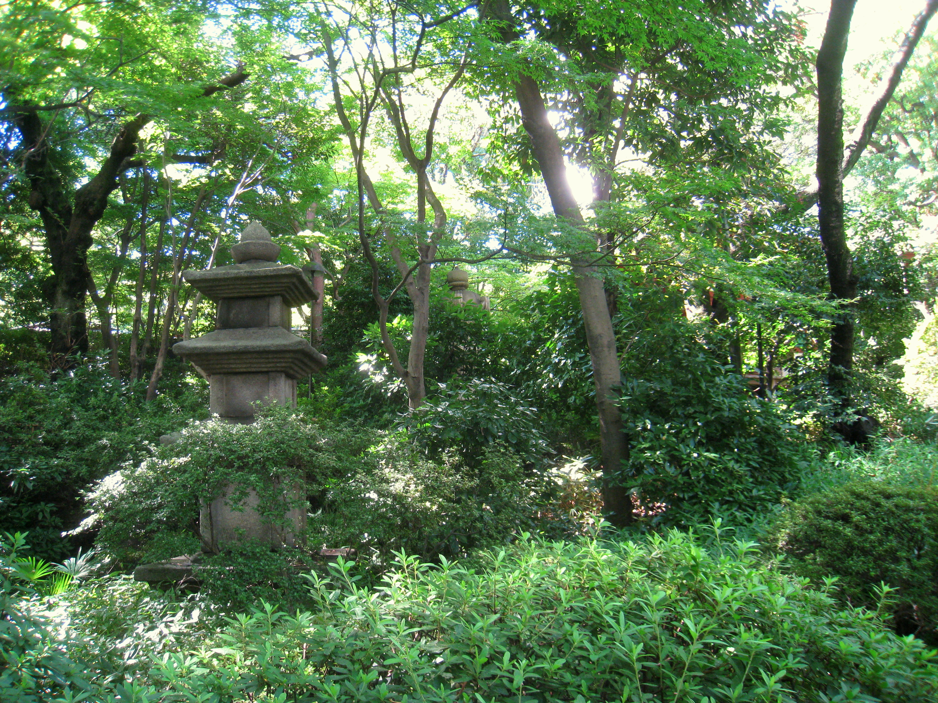 Garden of the Grand Prince Hotel Takanawa, near Shinagawa station in the Takanawa district of Minato, Tokyo, Japan. This garden formerly belonged to a member of the Japanese Imperial Family.